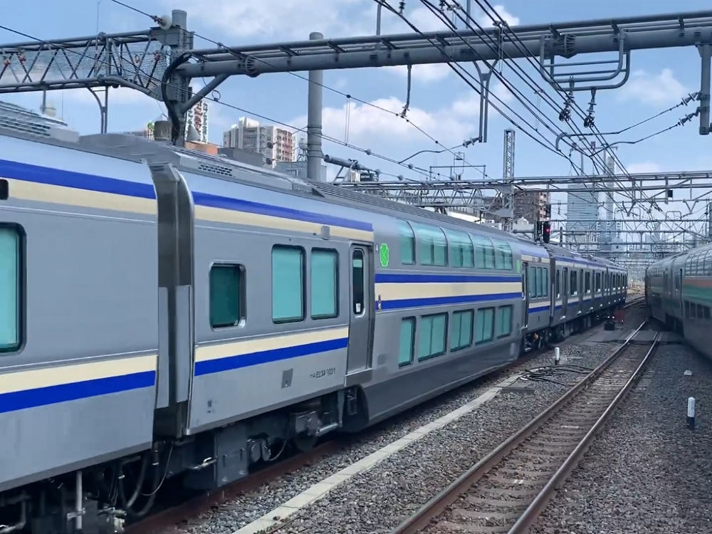 Bi-level Green car "Saro E234-1001"